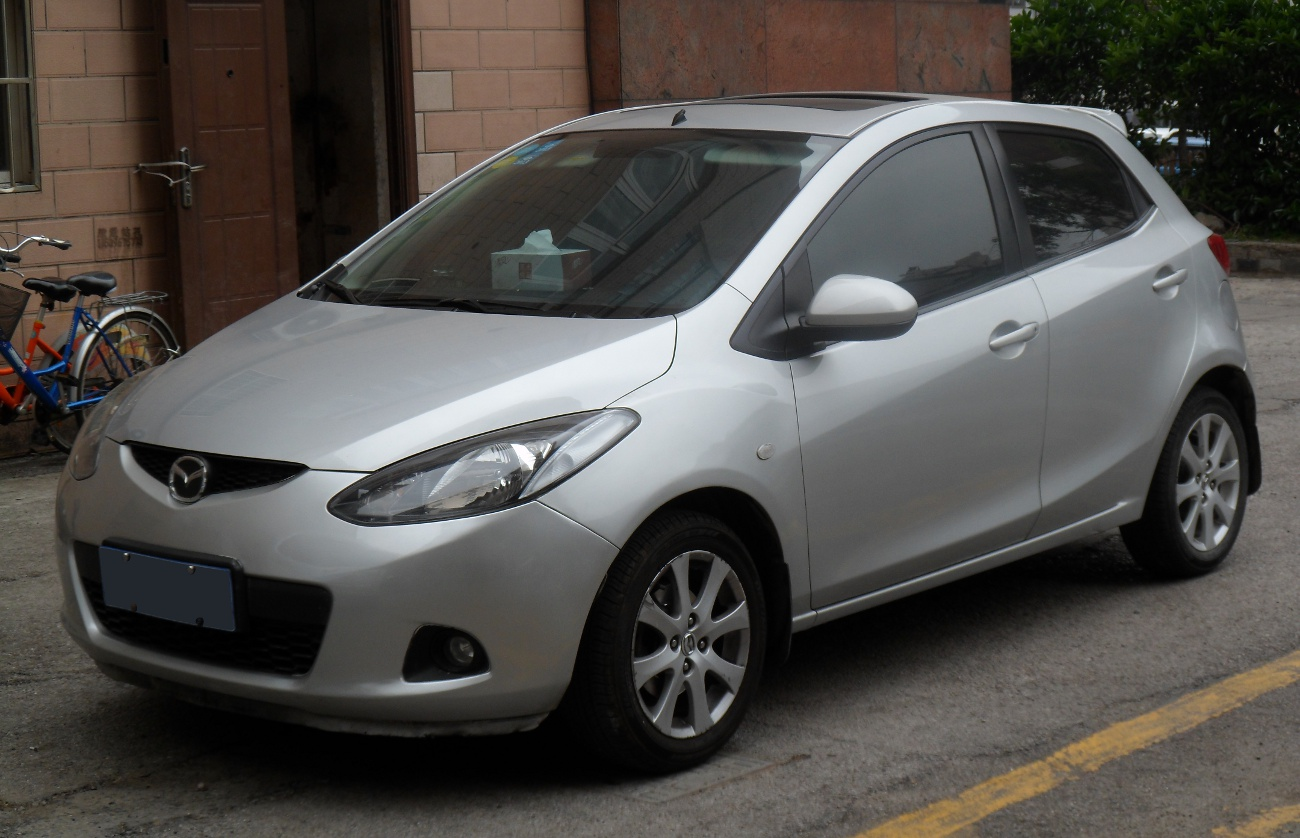 Mazda 2 DE hatch photographed in Shanghai, China.